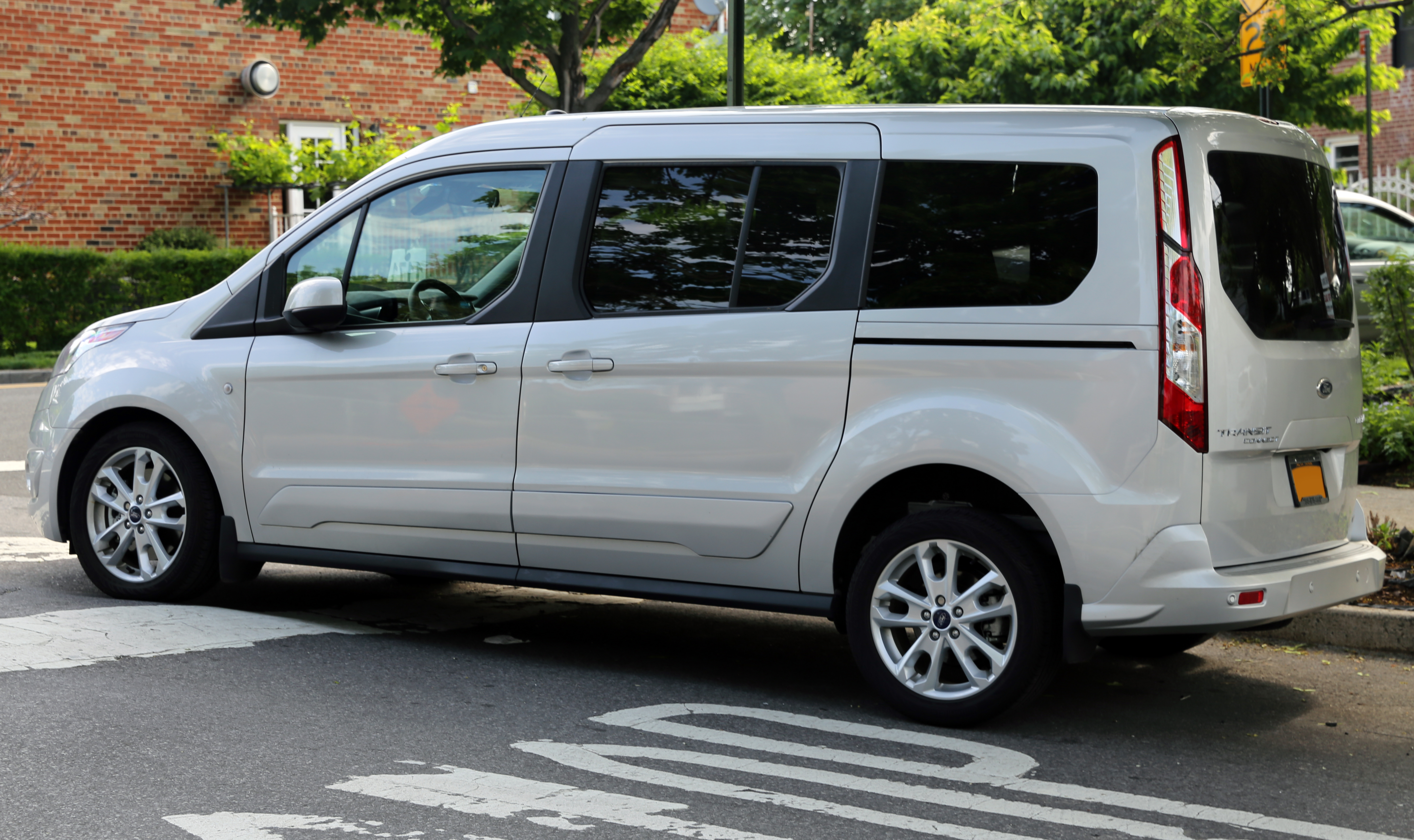 Rear left side view of a 2014 Ford Transit Connect Wagon Titanium LWB, with the top opening rear gate. Built in Otosan's plant in Turkey.